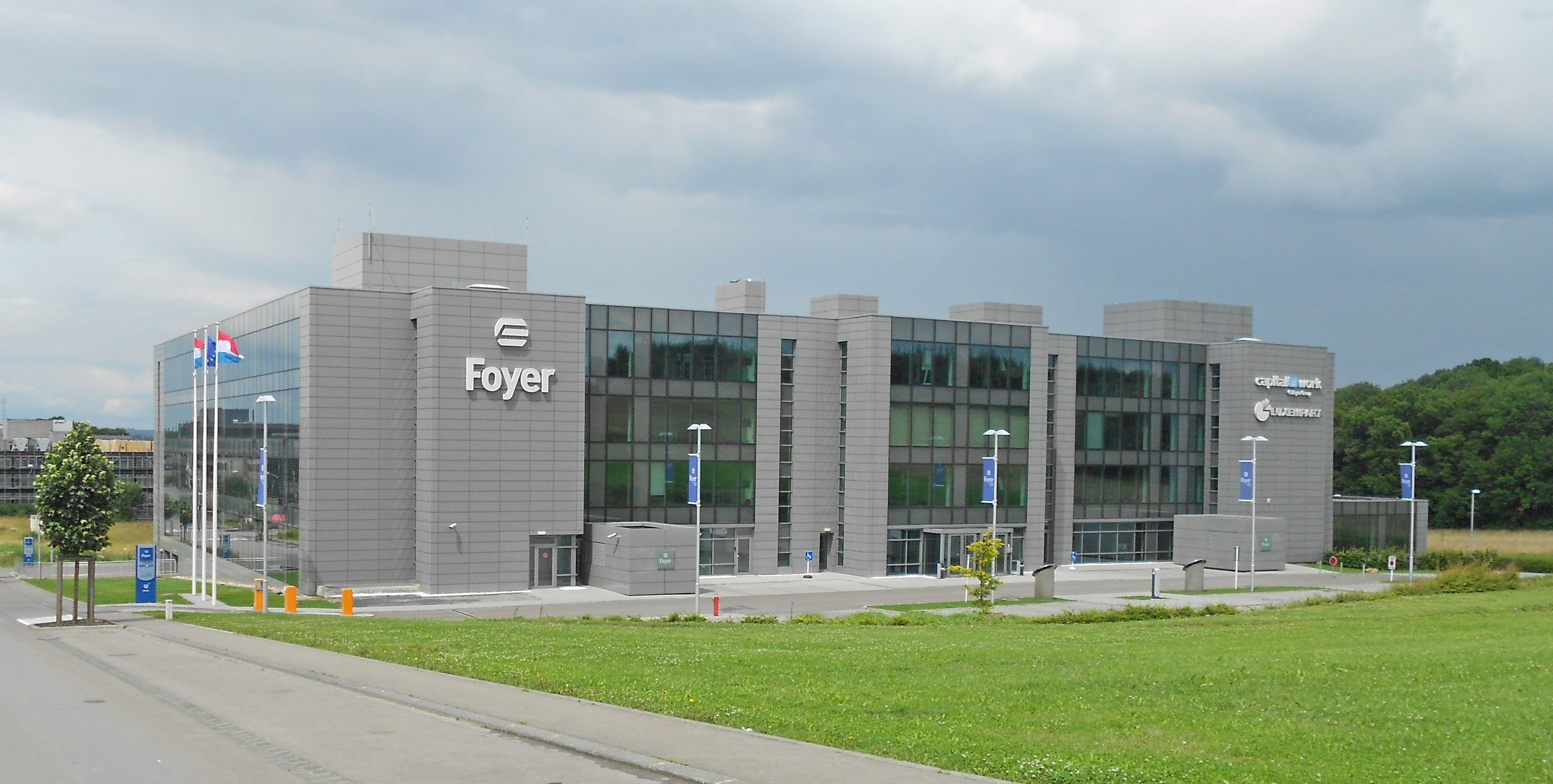 The headquarters of the Luxembourgish finance and insurance group Foyer S.A. in the business park "Am Bann" in Leudelange.